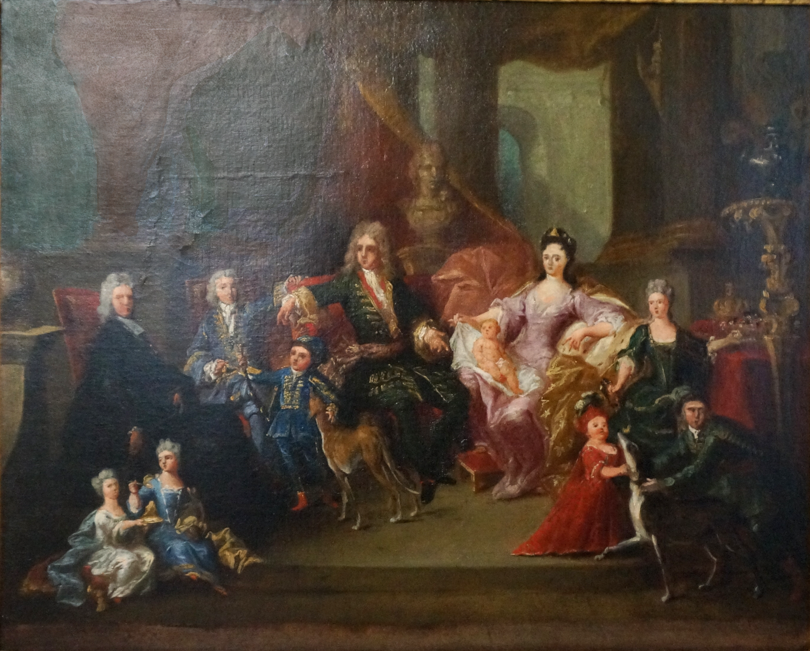 (Cropped) Family of Léopold I of Lorraine in circa 1710 attributed to Jacques Van Schuppen